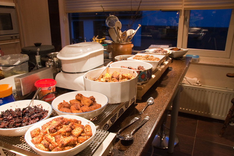 Rijstafel